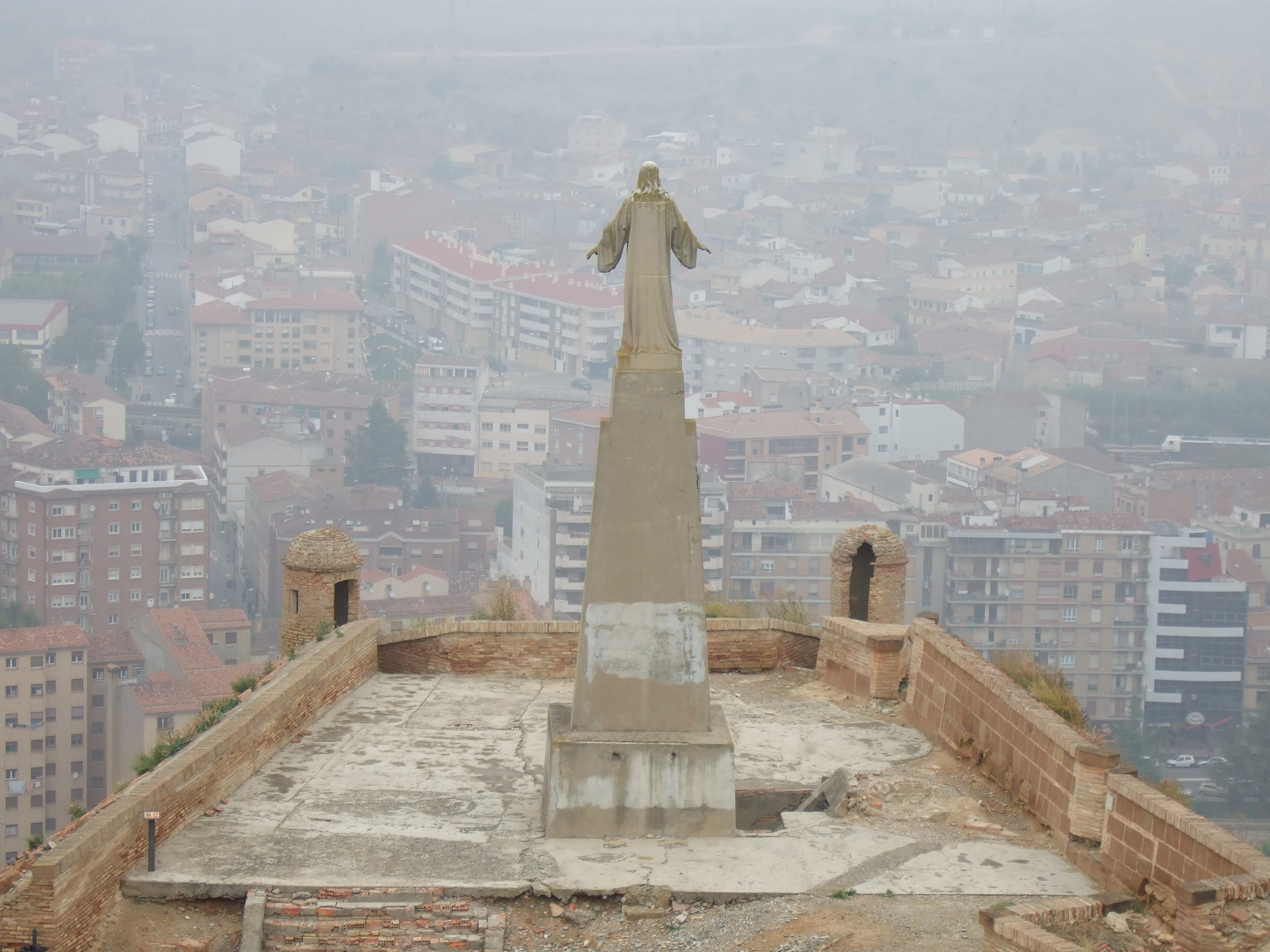 Castle of Monzon (Aragon, Spain)